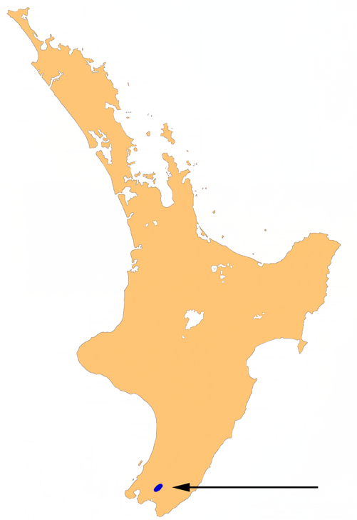 Location map of Lake Wairarapa, Greater Wellington, North Island, New Zealand